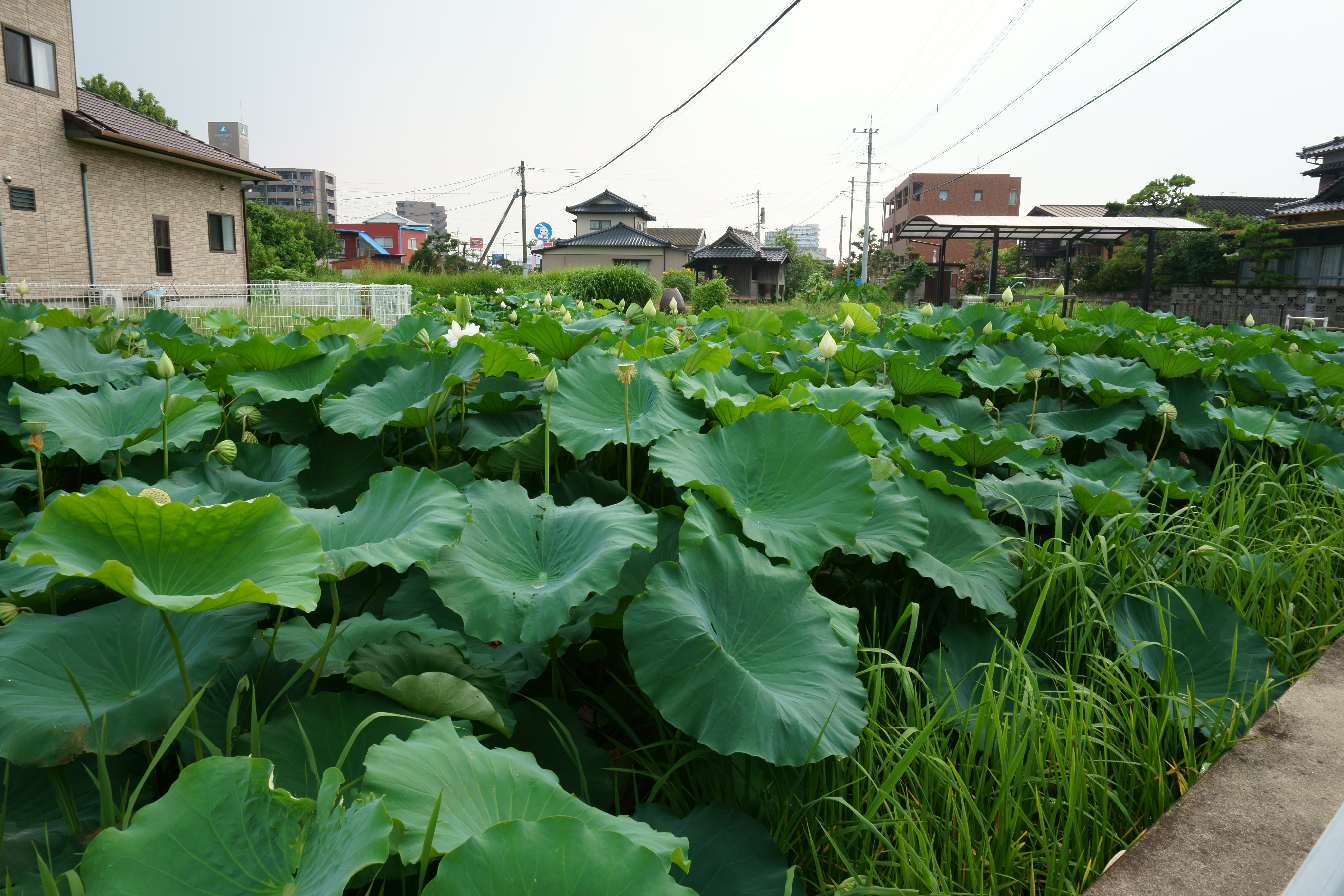 The lotus grows in the creek in residential area, in Higashinakano, Hyogo-machi, Saga city, Saga prefecture, Japan.